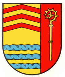 Coat of arms of Trulben